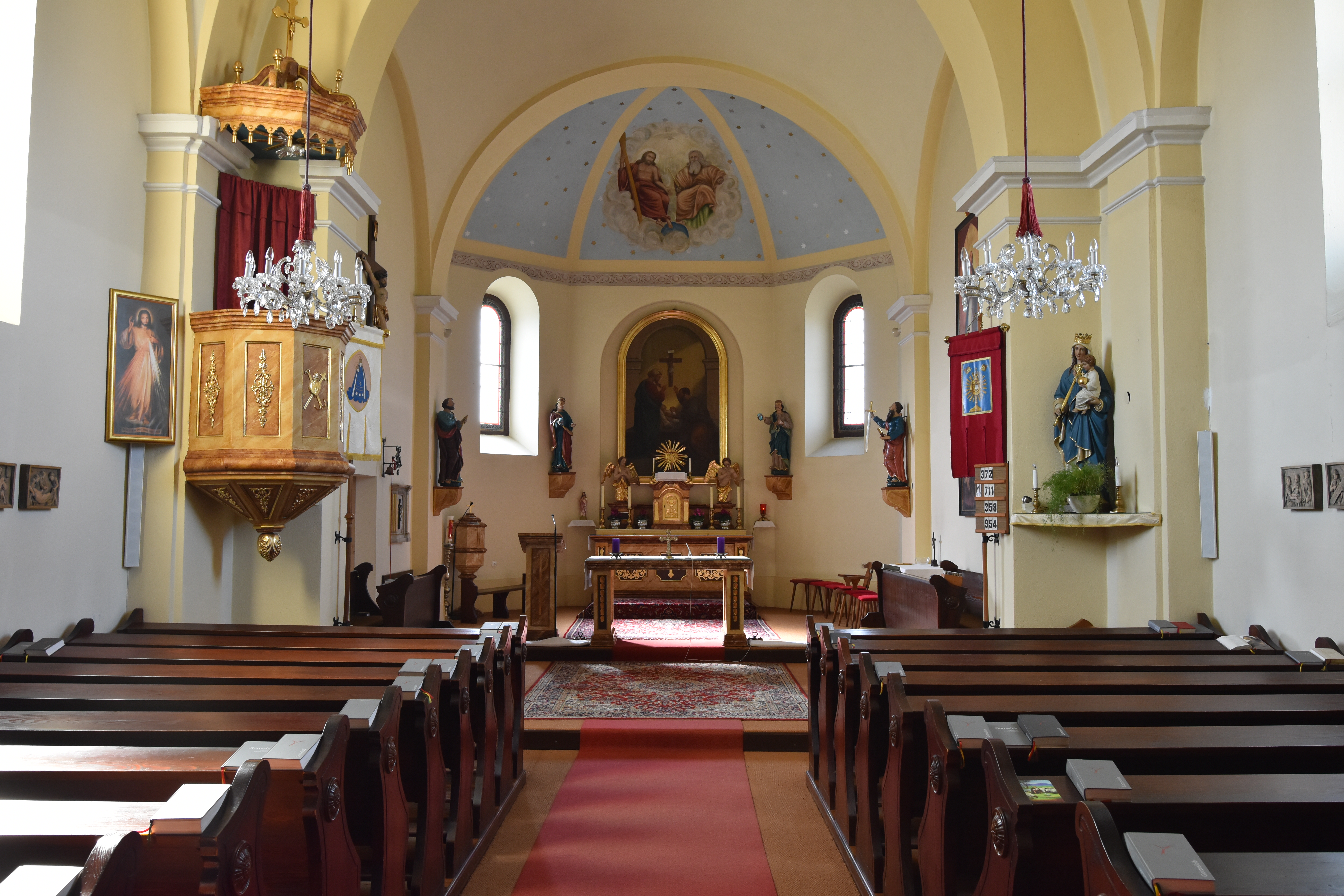 Church Hagensdorf - Interior